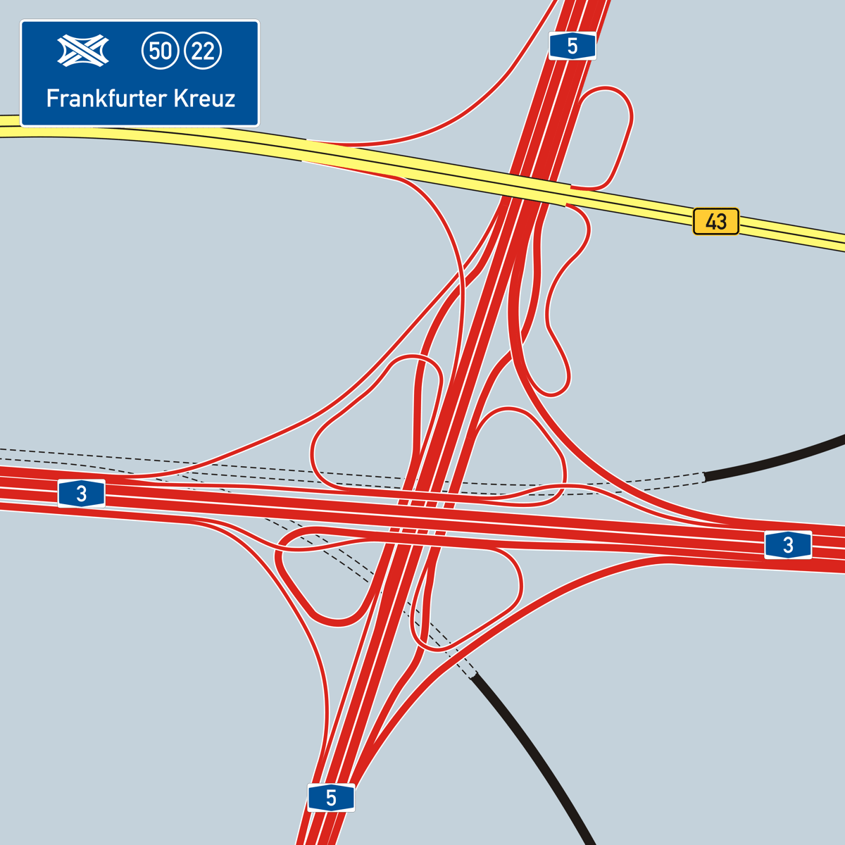 Traffic Junction 'Frankfurter Kreuz'